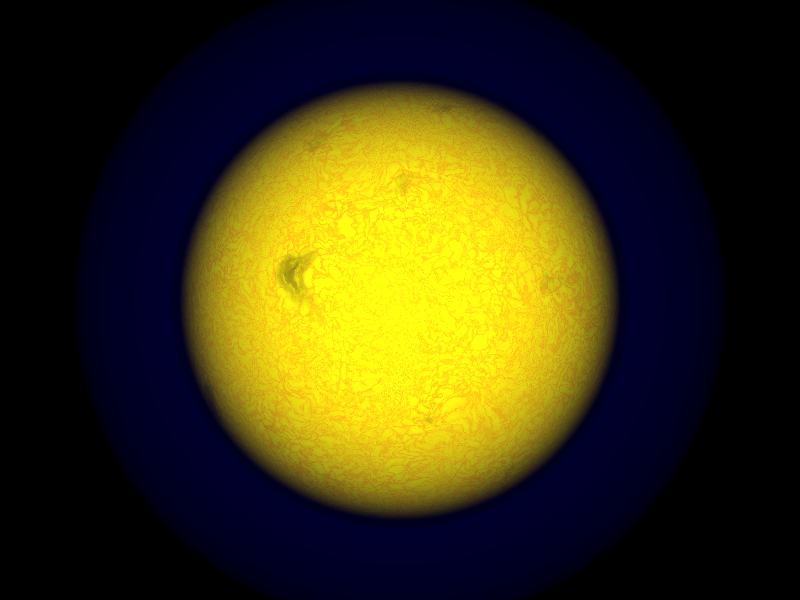 Artist's impression of Sun-like yellow dwarf star, generated with computer. Image repsents granulas, spots, limb darkening and corona, but not protuberances.